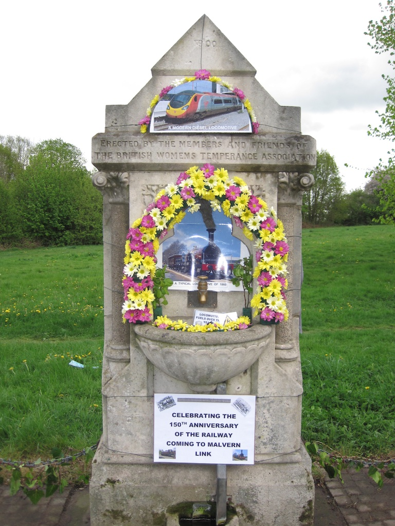 Spring water spout in Malvern Link, Worcestershire. The well has been "dressed" and bears a sign: celebrating the 150th anniversary of the railway coming to Malvern Link. the fountain on Malvern station was dressed to the same theme.